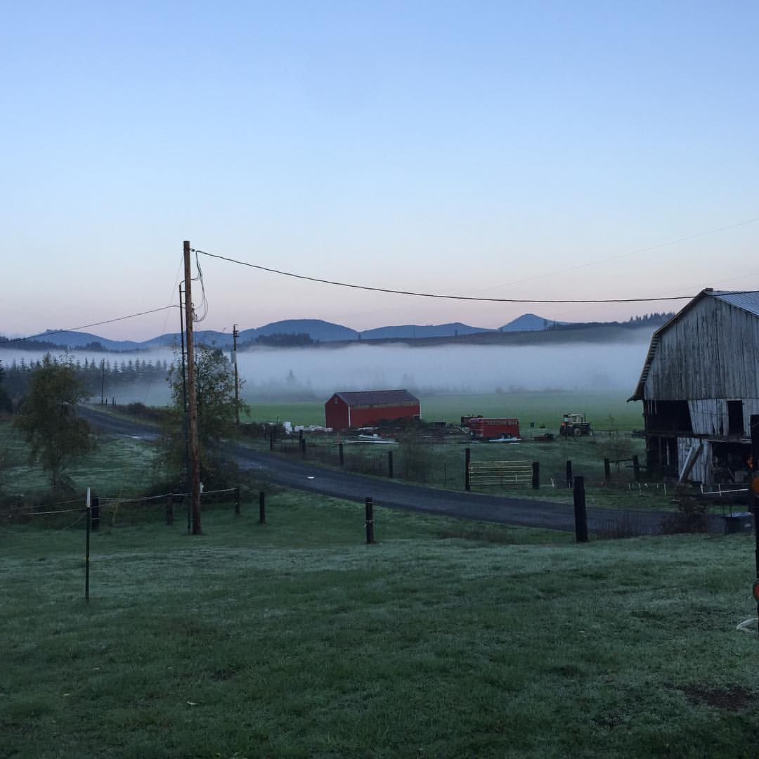 Morning #mist & a big gorgeous #barn greets the ride south: heading home from a #permaculture #retreat